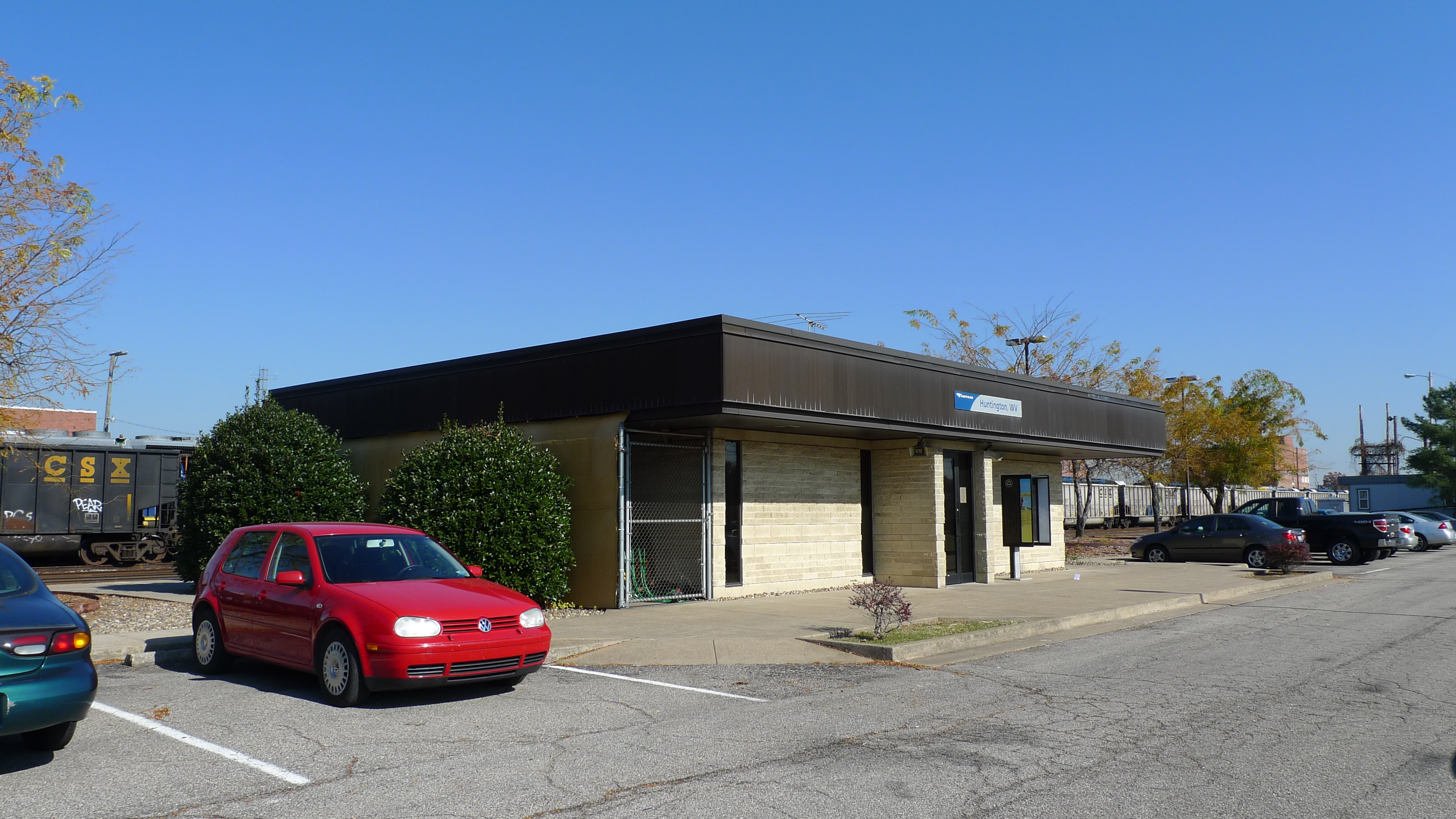 As seen from taxi lane